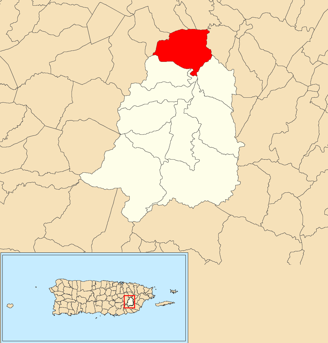 Quebrada, San Lorenzo, Puerto Rico locator map